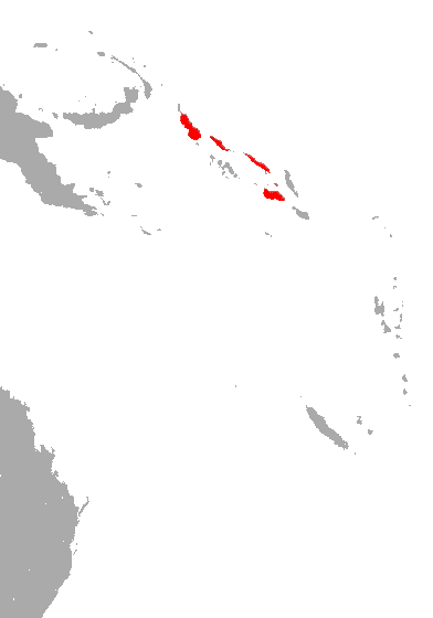 Flower-faced Bat (Anthops ornatus) range